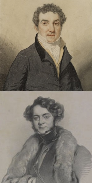 Portraits of (i) John Braham, top, and (ii) Alfred Bunn, below.